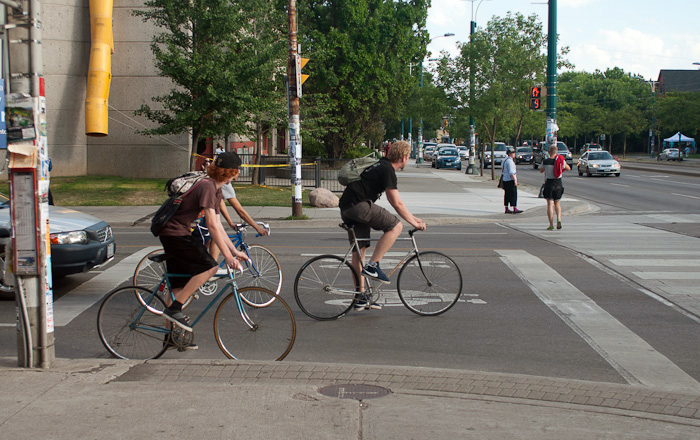 A "bike box" on Harbord Street, at Spadina Avenue, in Toronto, Ontario, Canada. Bike boxes, also known as advanced stop lines (ASL) or advanced stop boxes, are road markings at signalised road junctions allowing bicycles a head start when the traffic signal changes from red to green.